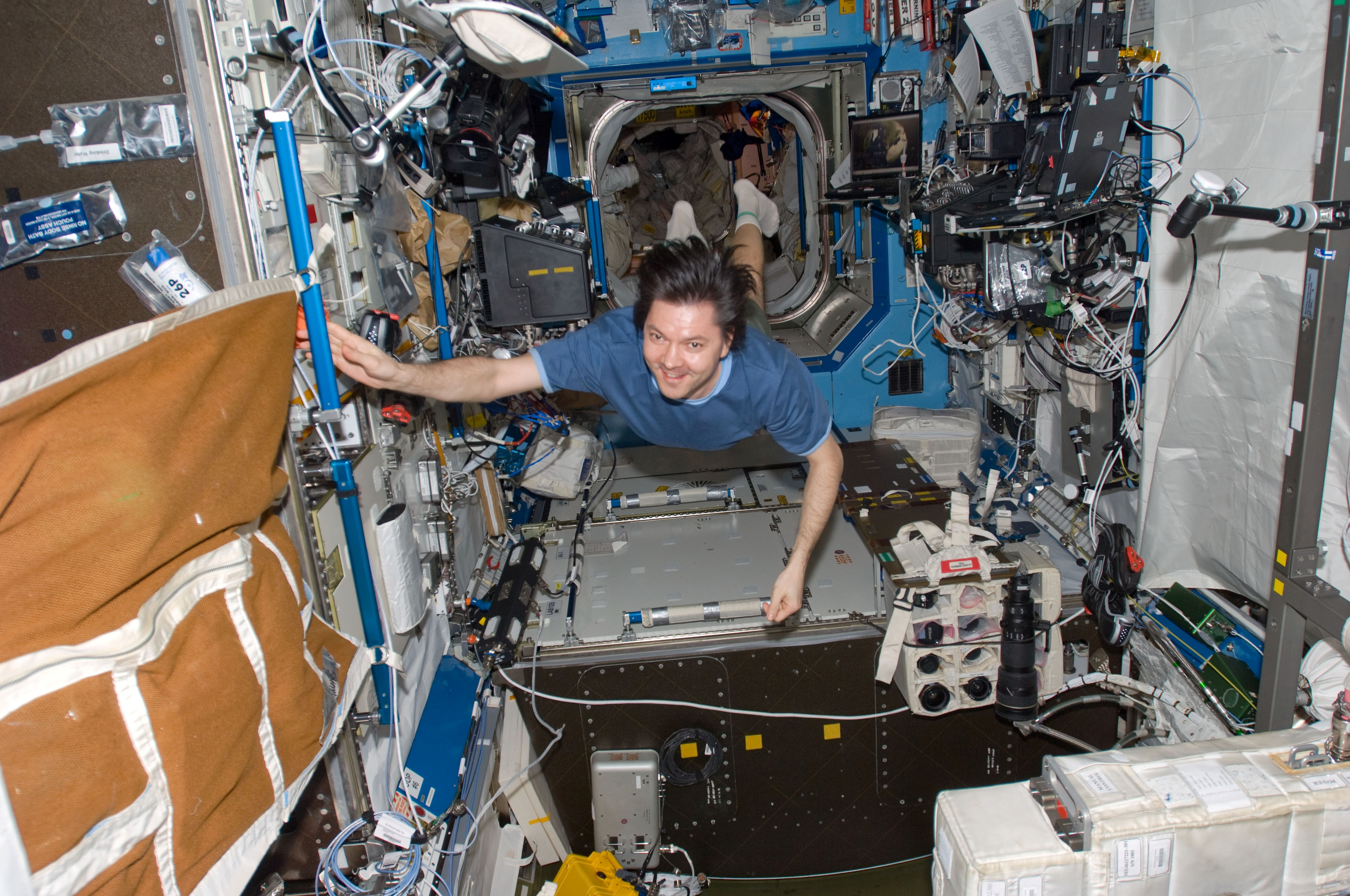 Cosmonaut Oleg Kononenko, Expedition 17 flight engineer, floats through the Destiny laboratory of the International Space Station